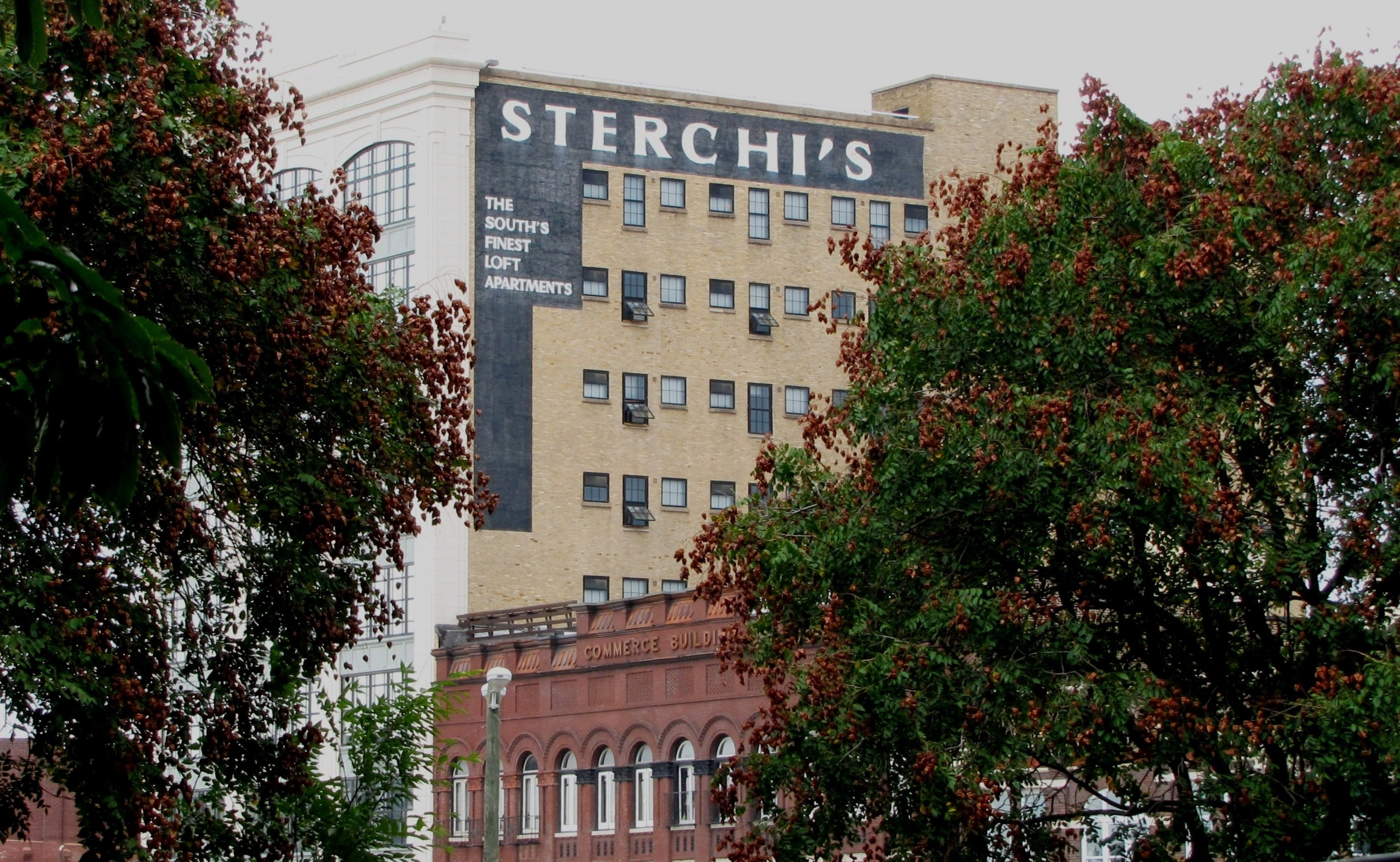 Sterchi Lofts (114 S. Gay Street) in Knoxville, Tennessee, USA. Built in the late 1920s as the headquarters for the furniture wholesaler, Sterchi Brothers, Inc., the building was renovated as a loft apartment building in 2002. The building is listed as a contributing property within the NRHP-listed Southern Terminal and Warehouse Historic District.